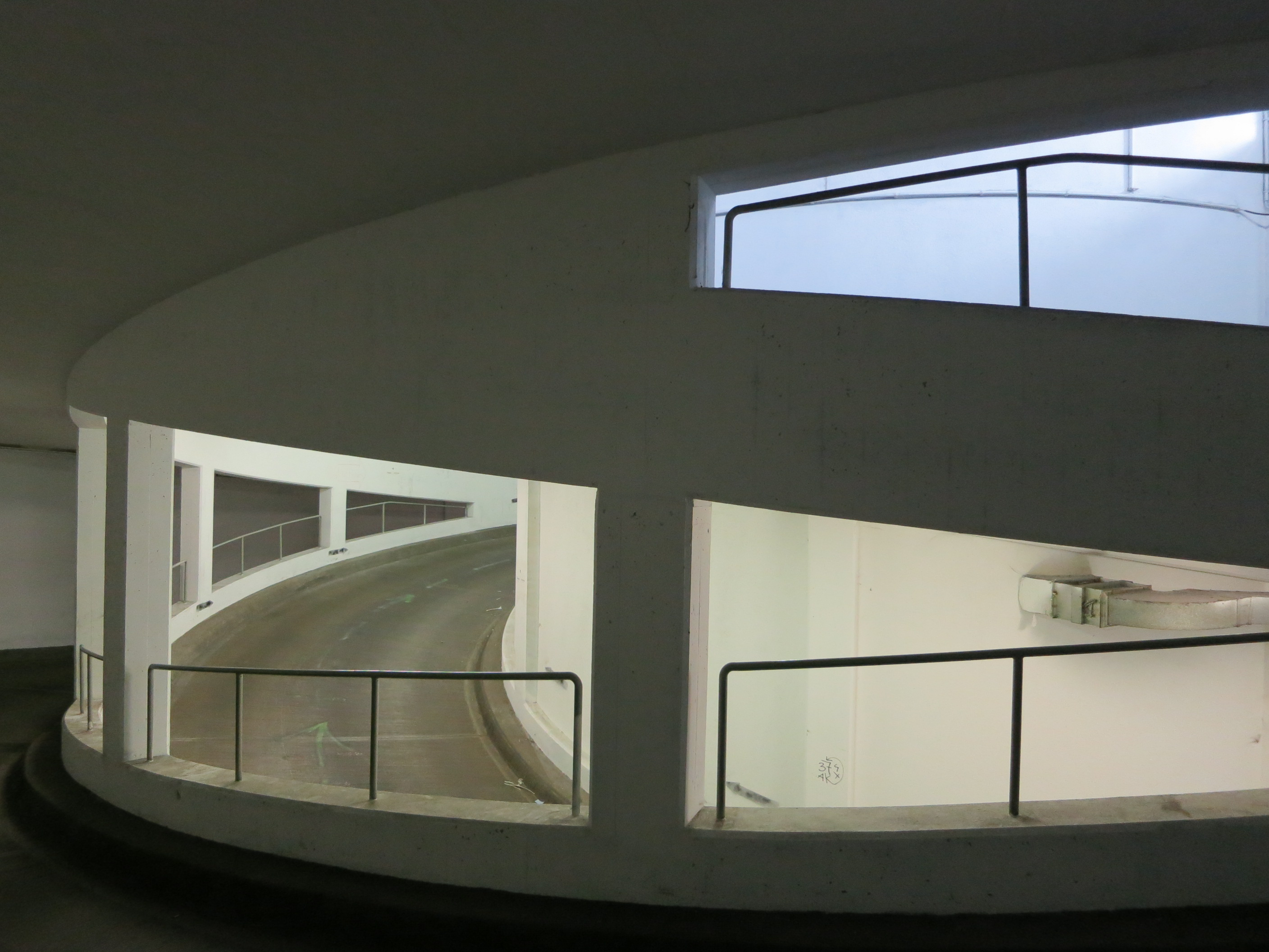 Rampe, ehemalige Grossgarage Schlotterbeck, Zürich-Aussersihl, Schweiz